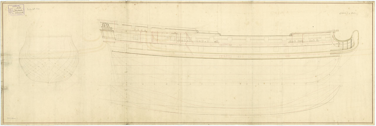 Colchester (1721) Scale: 1:48. Plan showing the body plan, sheer lines with some inboard detail, and longitudinal half-breadth proposed (and approved) for Colchester (1721), a 1719 Establishment, 50-gun Fourth Rate, two-decker. The plan was proposed by Benjamin Rosewell as a rebuild of the previous Colchester (1707). COLCHESTER 1721